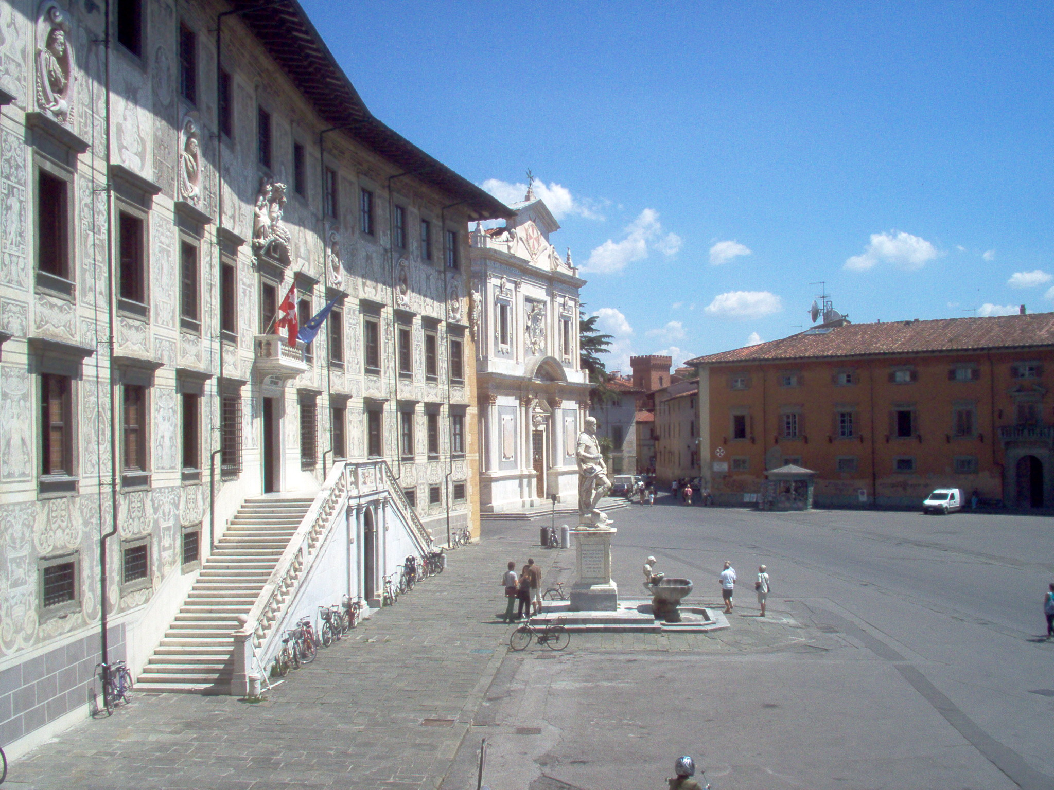 View of Piazza dei Cavalieri(Pisa) from the second floor of the Palazzo dell' Orologio